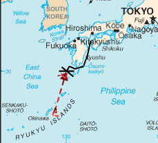 The map of Operation Ten-Go. Routes of the Japanese force (solid black) and U.S. carrier aircraft (dotted red) to the battle area (X) are shown.